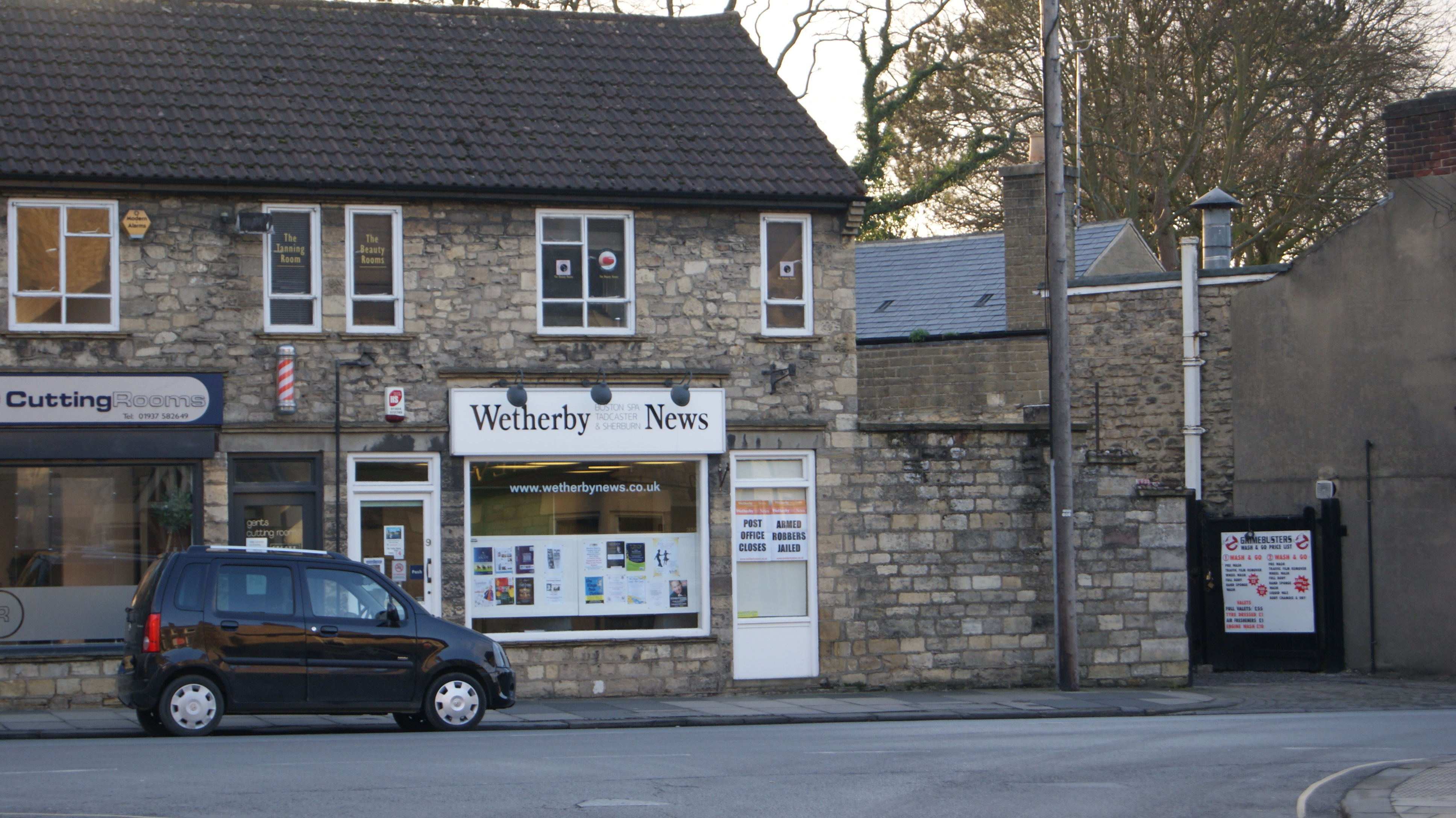 Wetherby News offices, Westgate, Wetherby, West Yorkshire. Unfortunately these also closed later in the year. Taken on the afternoon of Wednesday the 1st of February 2012.